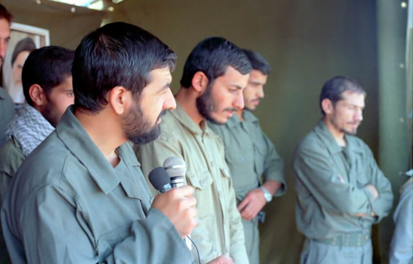 Mohammad Ebrahim Hemmat